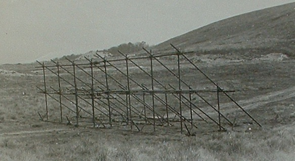 Photograph of beach scaffolding defence, an anti-boat and anti-tank obstacle. Test piece. Type Z.1 also known as Admiralty Scafolding. Cropped from a larger image.